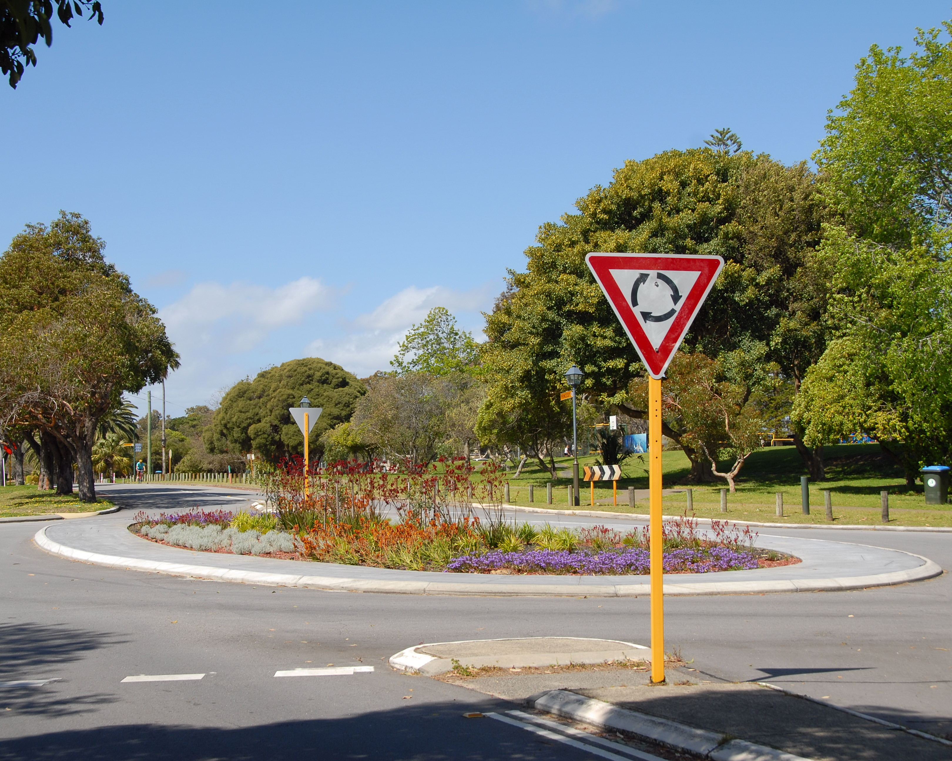 Princess Road, Claremont - Western Australia. The road is a designated cycleway, features traffic roundabouts with native species, and is the main thouroughfare for east/west traffic in Claremont, Dalkieth, and Nedlands.